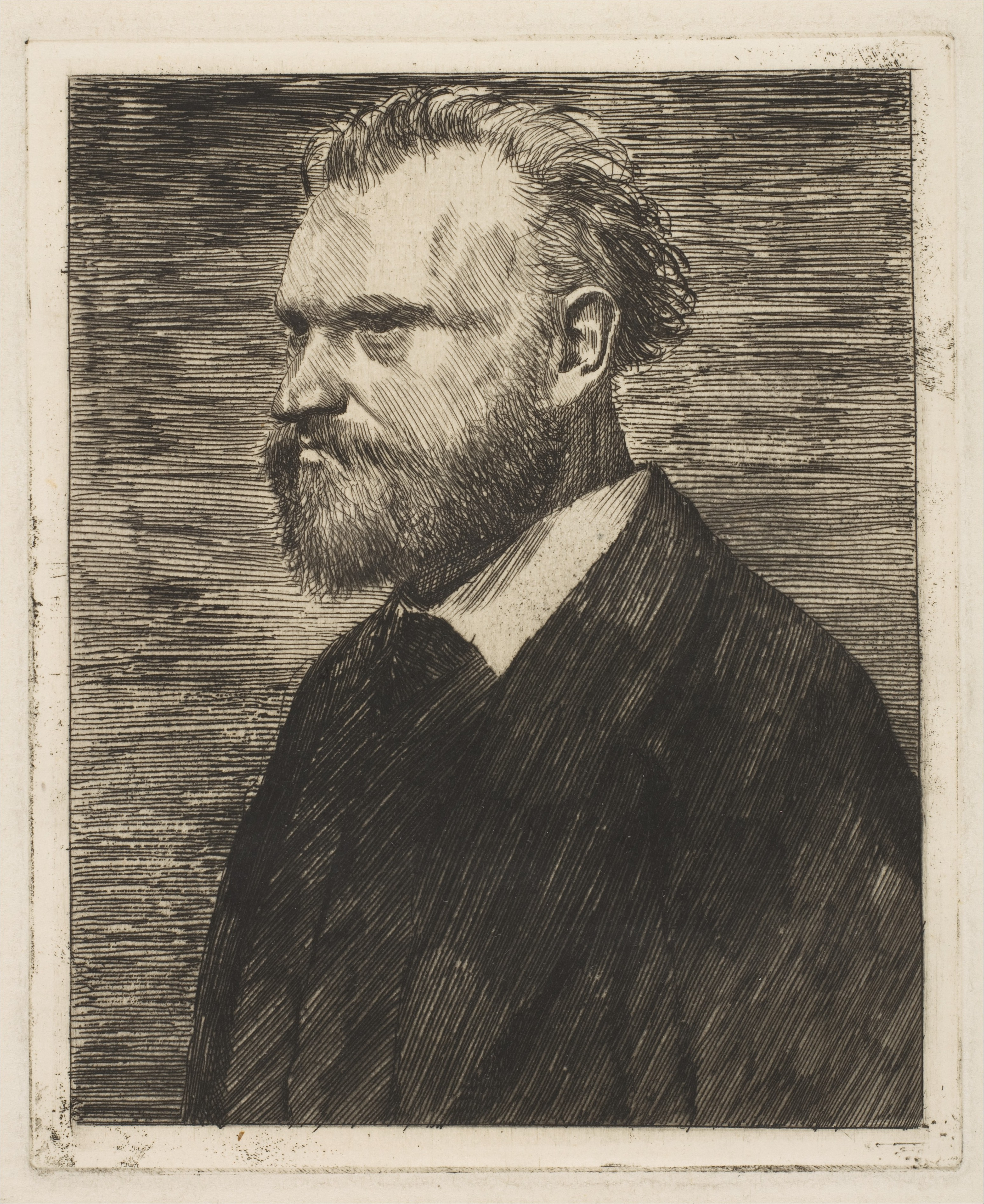 Portrait of French painter Édouard Manet